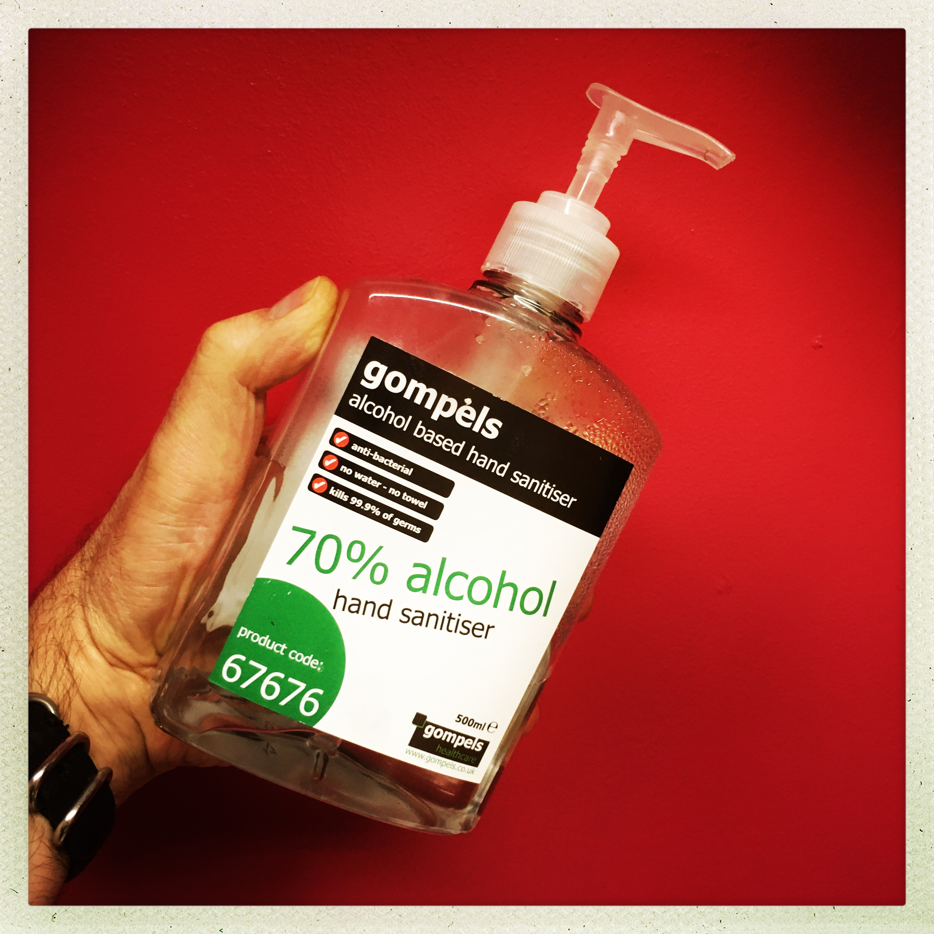 Keep Calm and Carry On.... Tags 366days coronavirus simple precaution dont panic Gompels